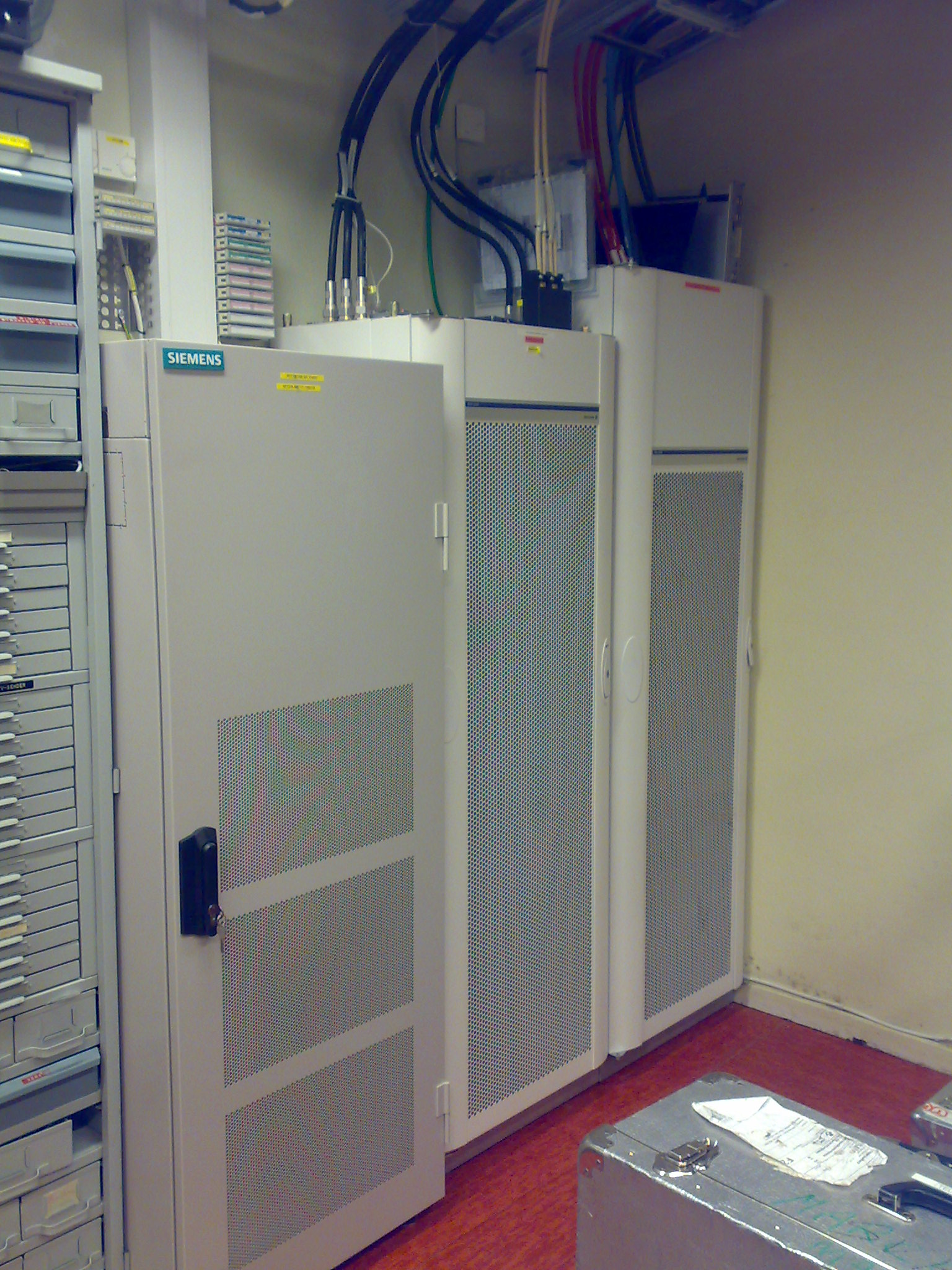 NetCom equipment colocated at one of Telenors locations in Longyearbyen, Svalbard.